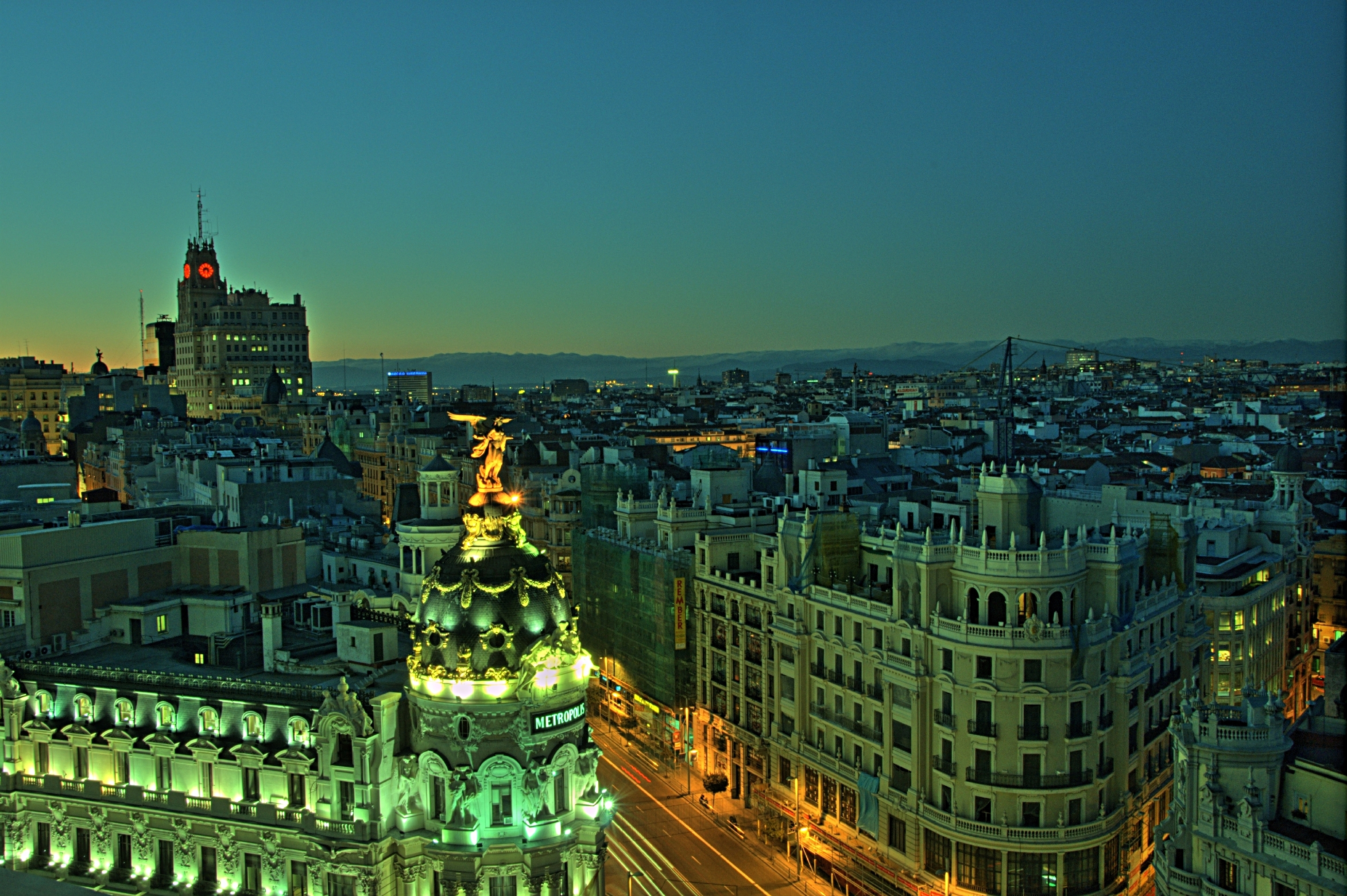 View of Madrid (Spain) from Círculo de Bellas Artes' flat roof (downtown). Foreground: Metropolis Building and Gran Vía (avenue).